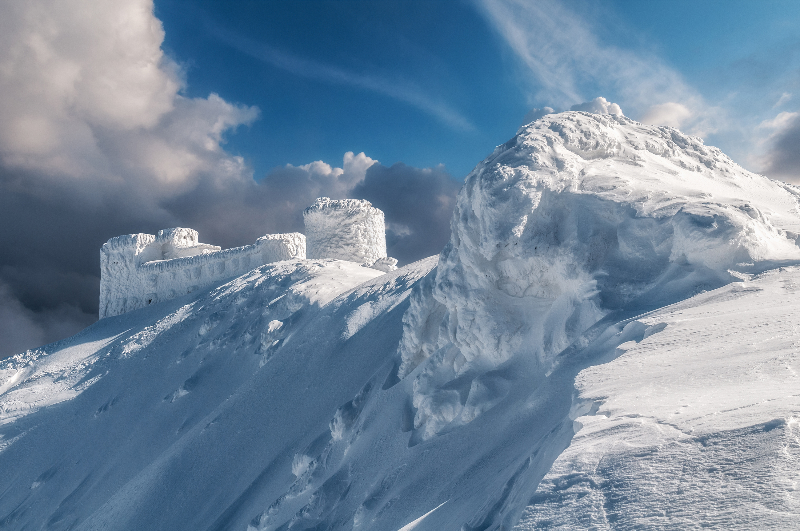 Abandoned Observatory "White Elephant". Carpathian National Nature Park